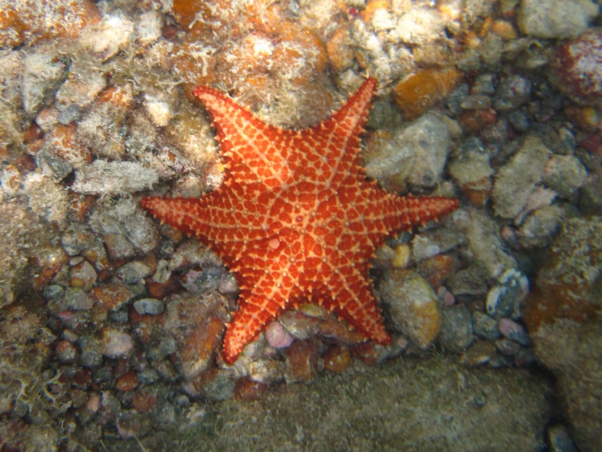 Unusual six-legged Caribbean red cushion seastar (Oreaster reticulatus), Mosquito Pier, Vieques, PR.